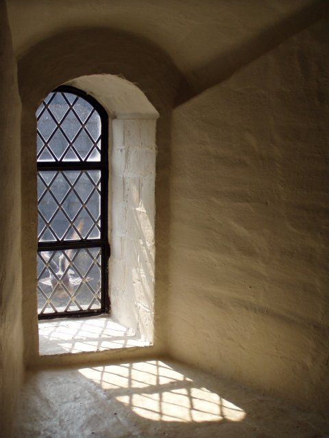 A window at Häme Castle in Hämeenlinna, Finland.